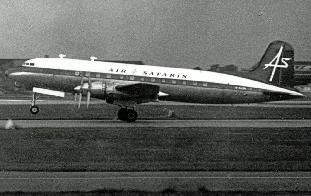 Handley Page HP.81 Hermes 4 G-ALDA of Air Safaris at Manchester Airport in 1962